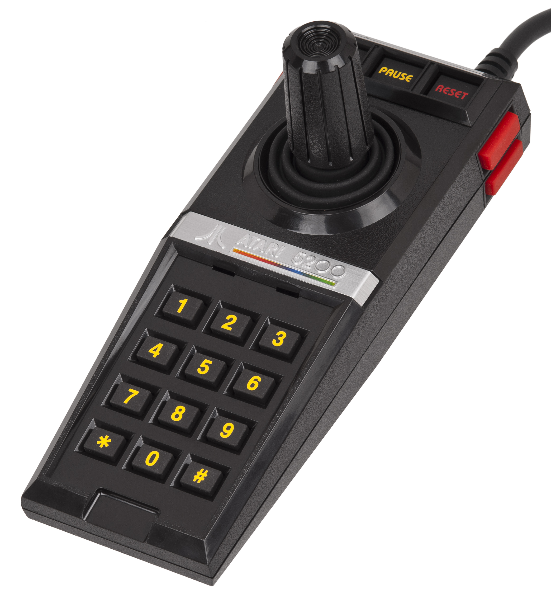 The controller for the Atari 5200 video game console. The joystick is covering a green-colored "Start" button.